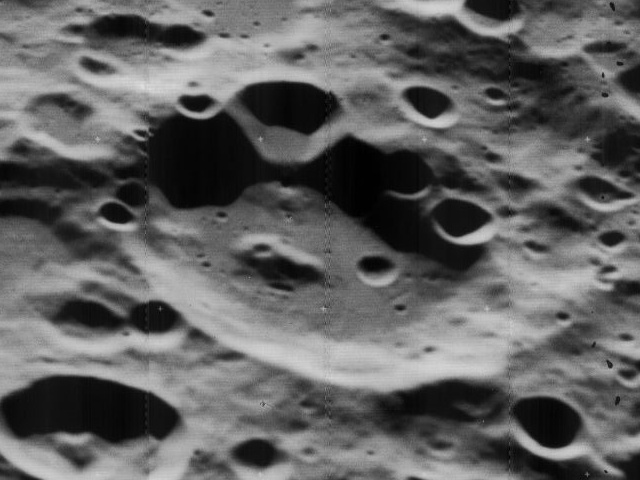 Oblique view of Lodygin, on the far side of the moon, facing west.